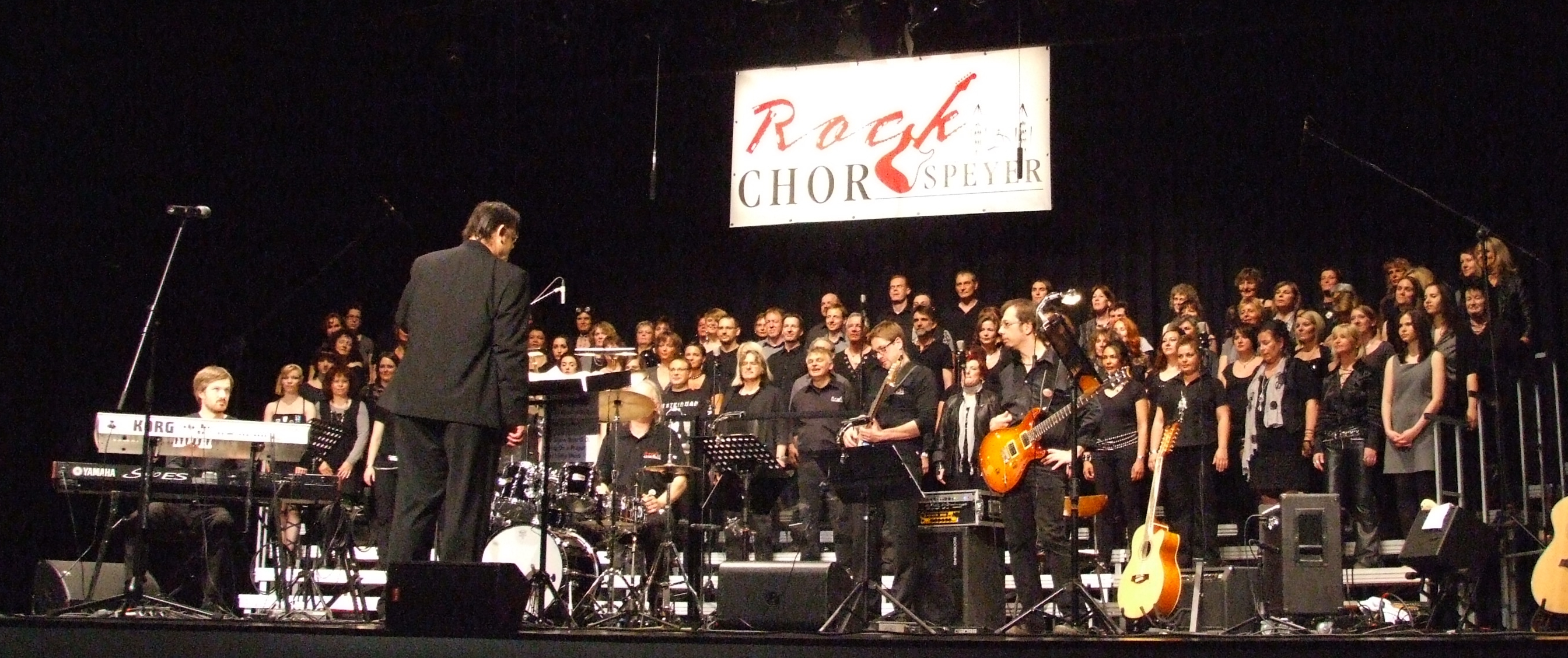 Joe Völker conducts Rockchor Speyer.